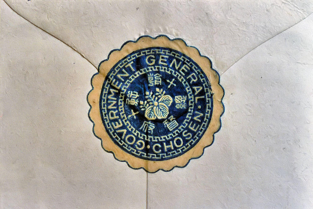 The envelope from Japanese Korea, sealed with the Government-General`s seal